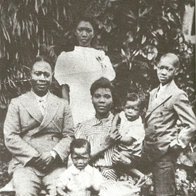 Reverend Israel Oludotun Ransome-Kuti and Funmilayo Ransome-Kuti seated. Dolu is standing behind them, Olikoye stands to the right, and Fela in foreground. The baby in Funmilayo's arms is Beko.